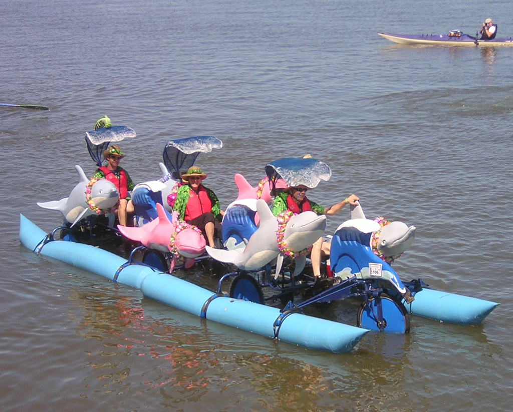 Team Melvin crossing Humboldt Bay in Eureka, California on day 2 of the 2010 Kinetic Sculpture Race, May 30, 2010. Team Melvin has competed 28 years of the race's 42 year history, earning 24 ACE awards for each of its three pilots. Photo taken from the Eureka Boardwalk.